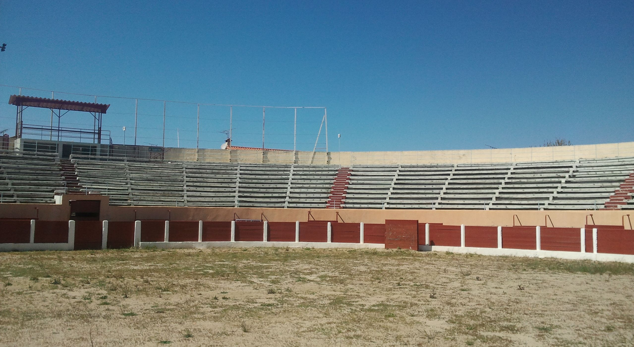 The bullring in Céret